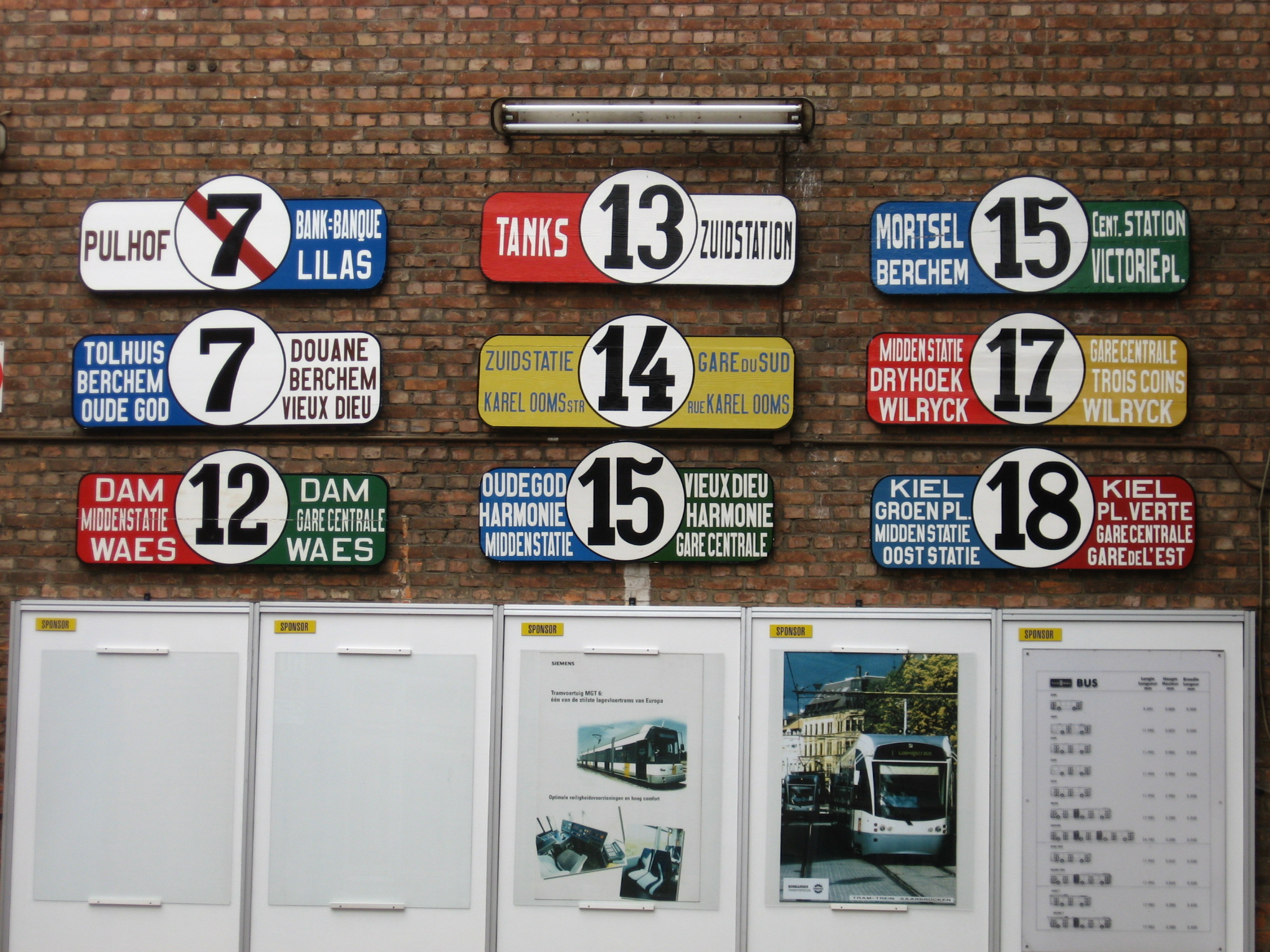 Destination boards of the trams in Antwerp.